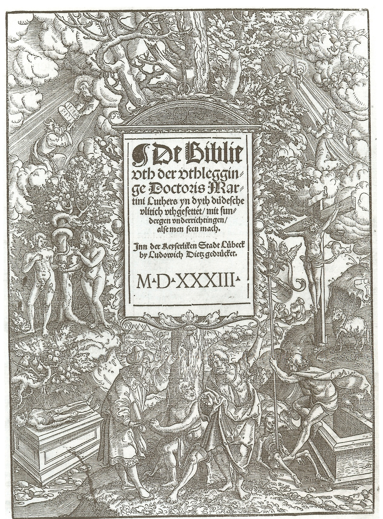 Title page of the Lübeck Bible of 1533/34 with a woodcut by Erhard Altdorfer